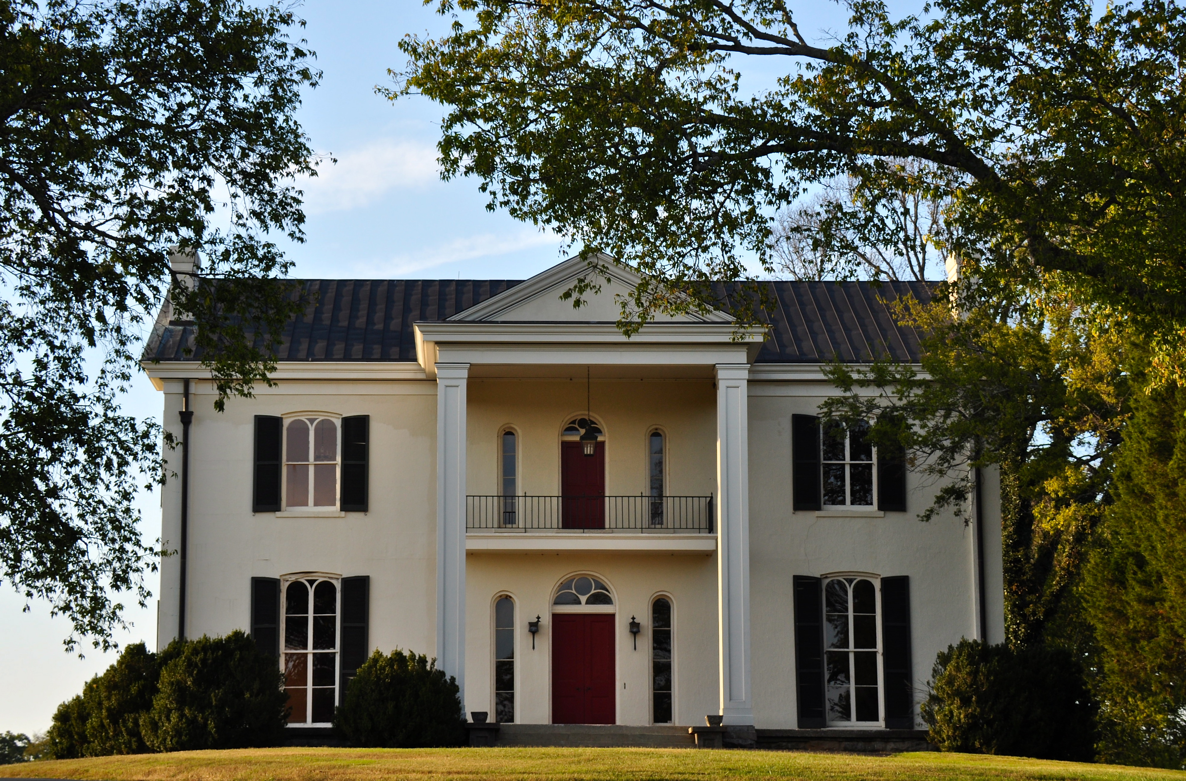 H.G.W. Mayberry House, Bear Creek Rd., 0.5 miles (0.80 km) west of Carters Creek Pike Franklin